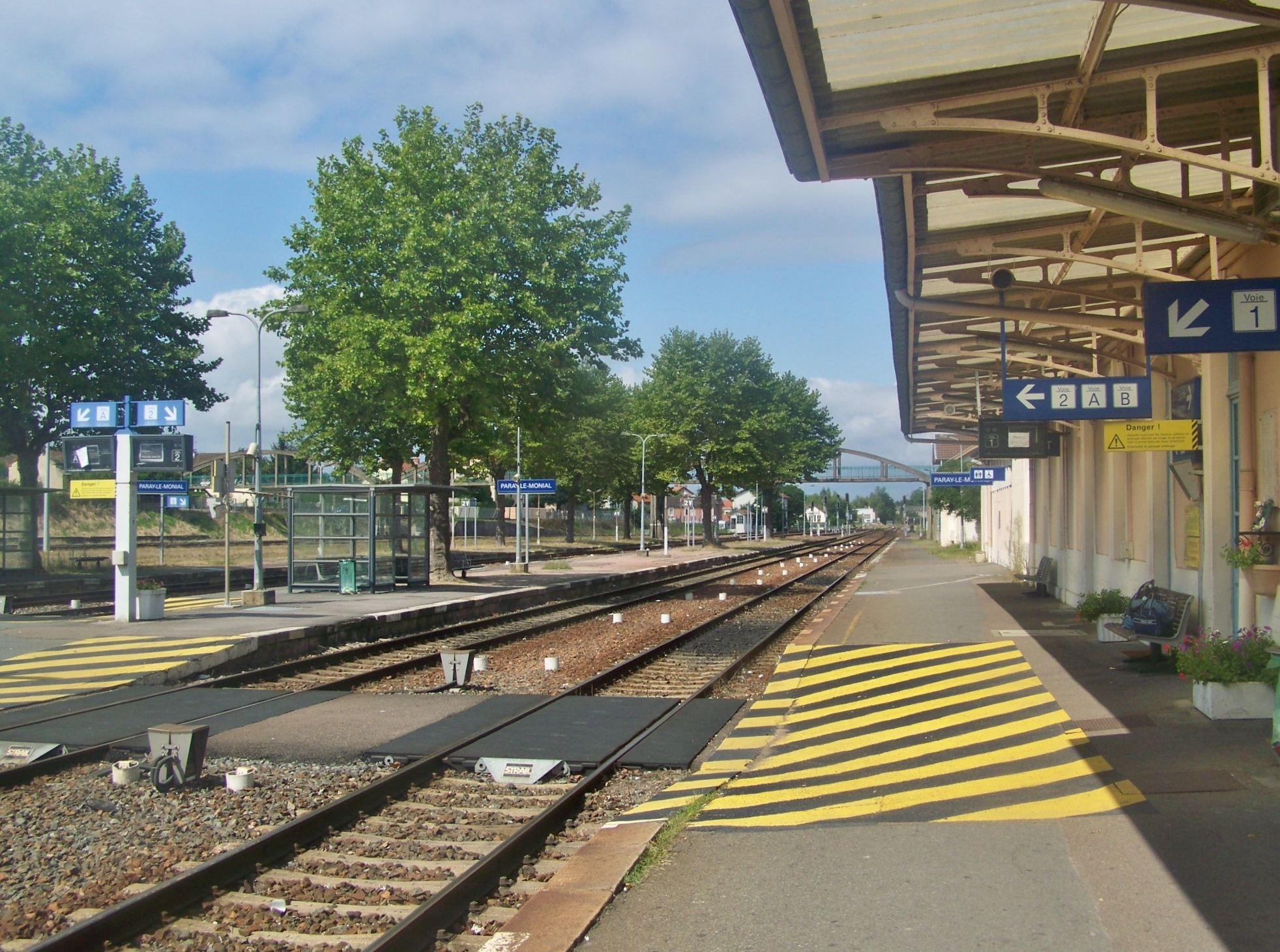 Sight on the platforms and tracks of the Paray-le-Monial railway station, in Saône-et-Loire, France.